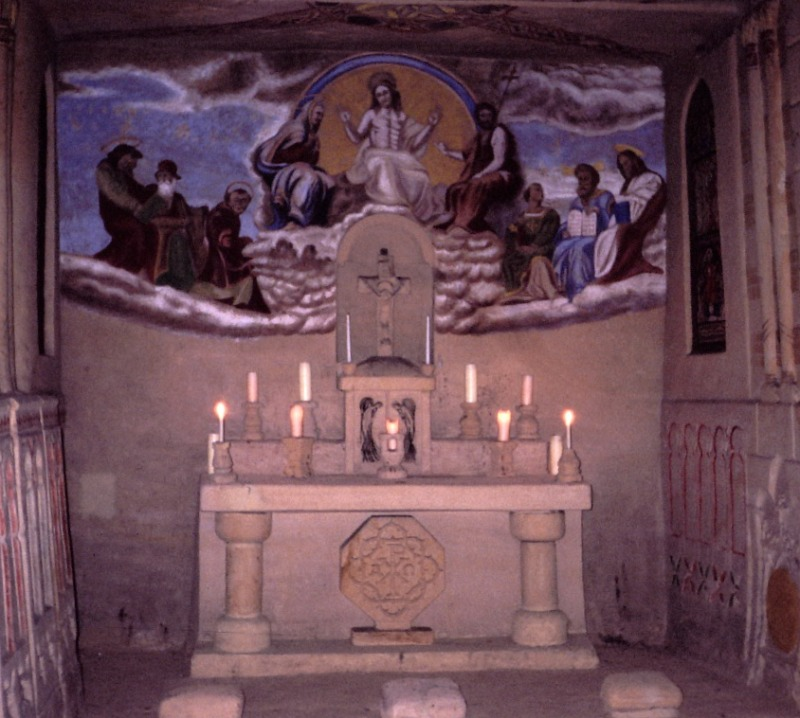 National monument no. 506709 - Jezuïtenberg, Maastricht, The Netherlands - The Chapel